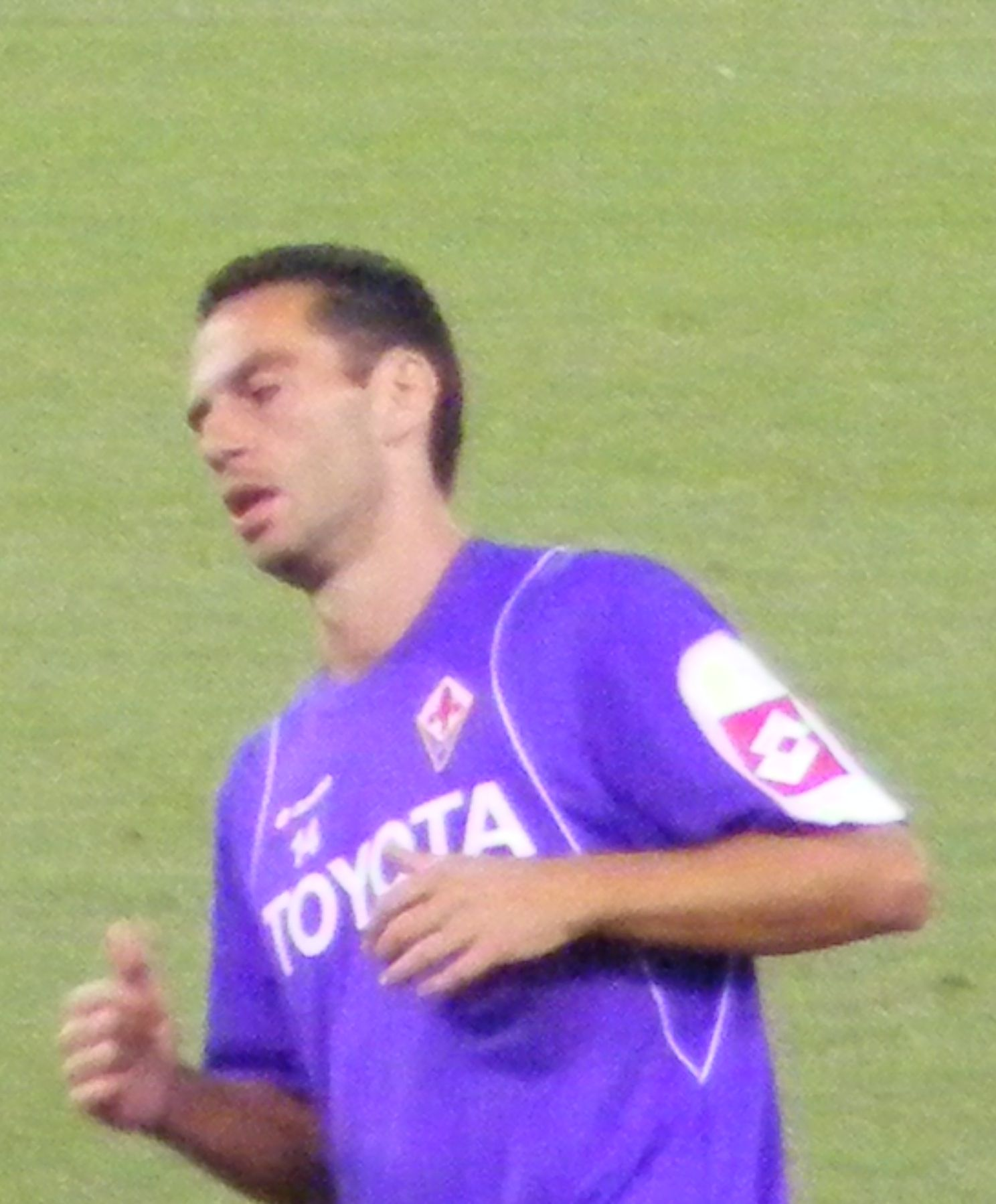 Luciano Zauri against S.S. Lazio